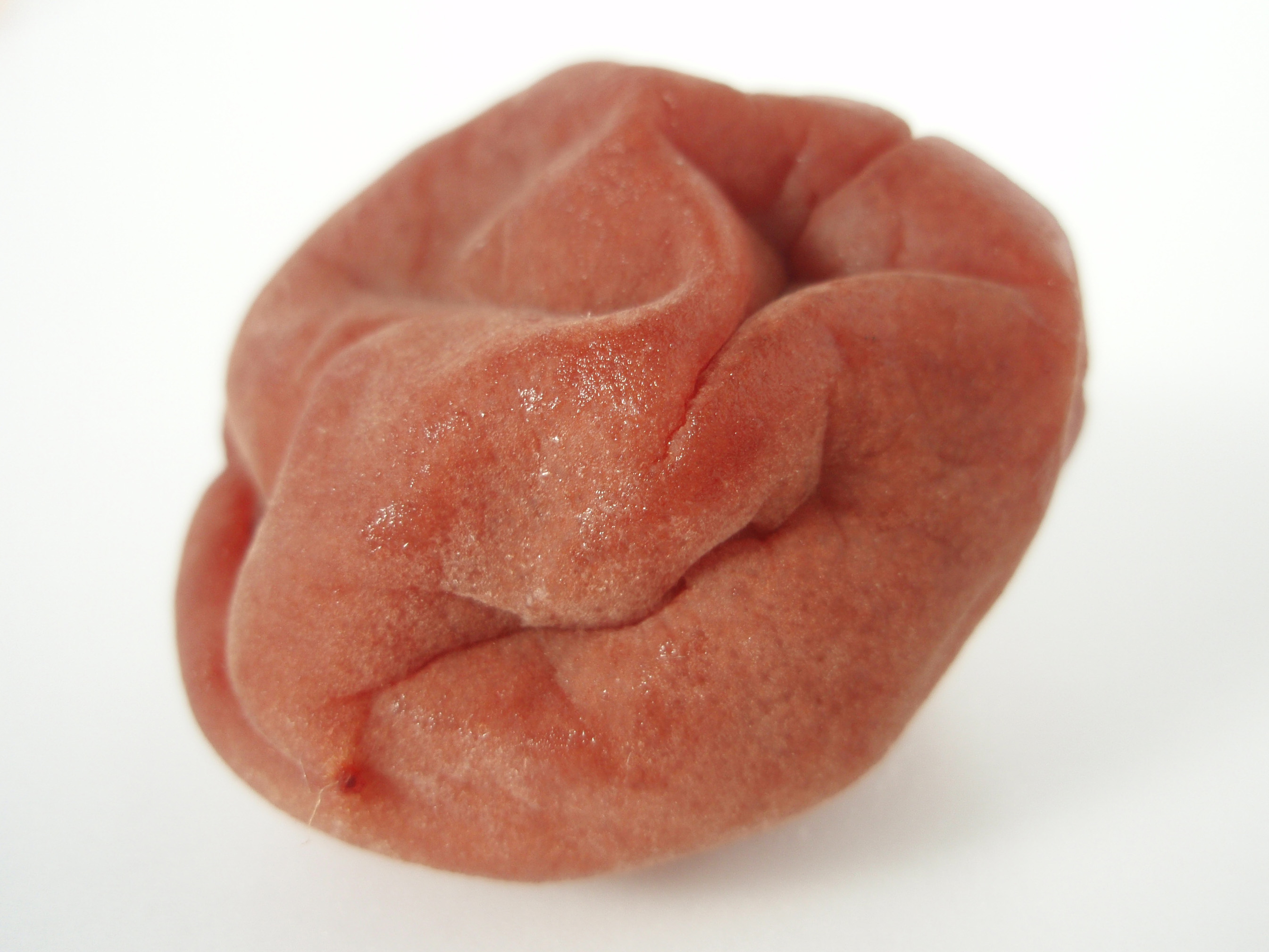 Umeboshi are pickled ume fruits common in Japan.